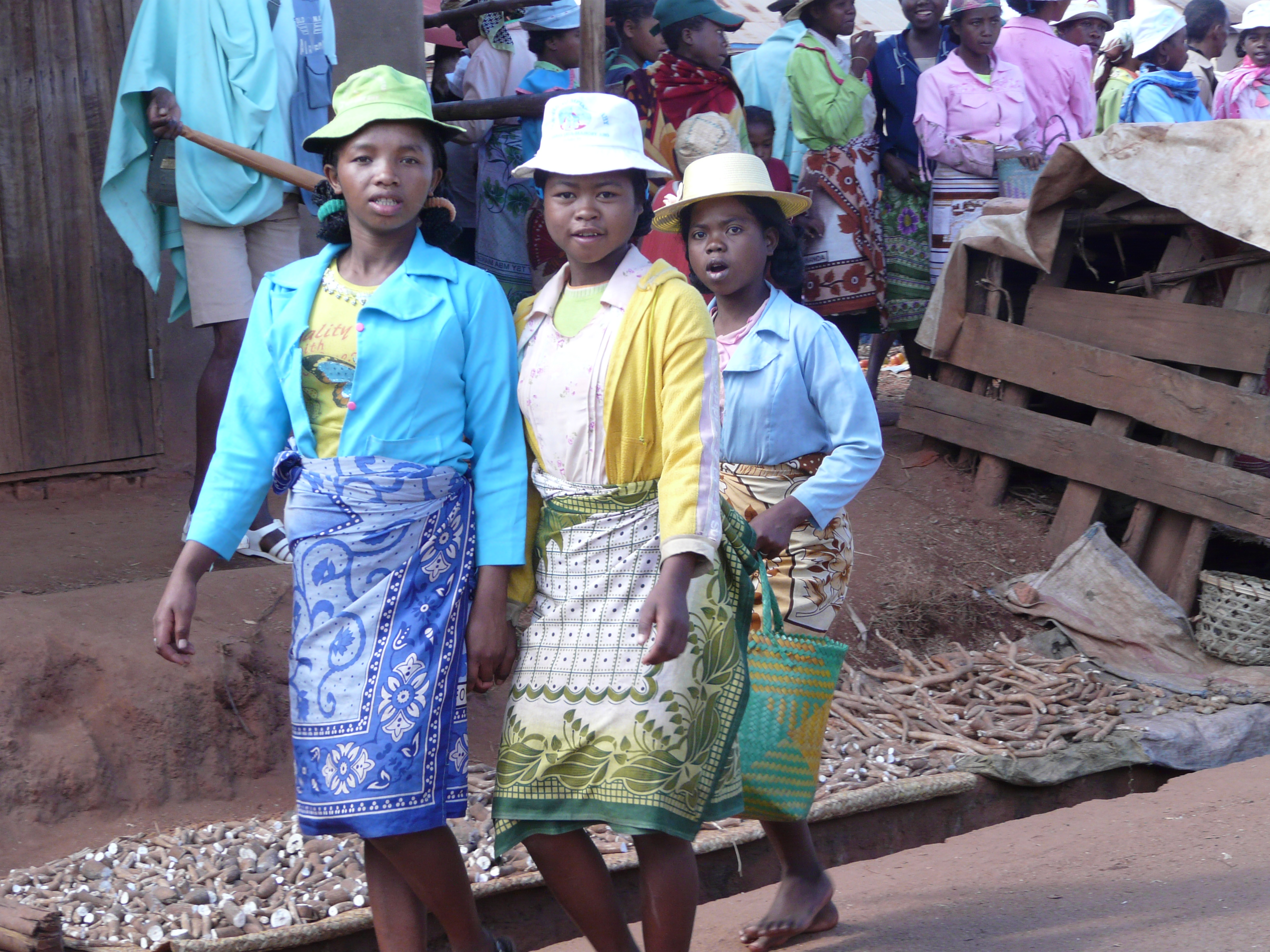 Three girls at Camp Robin market